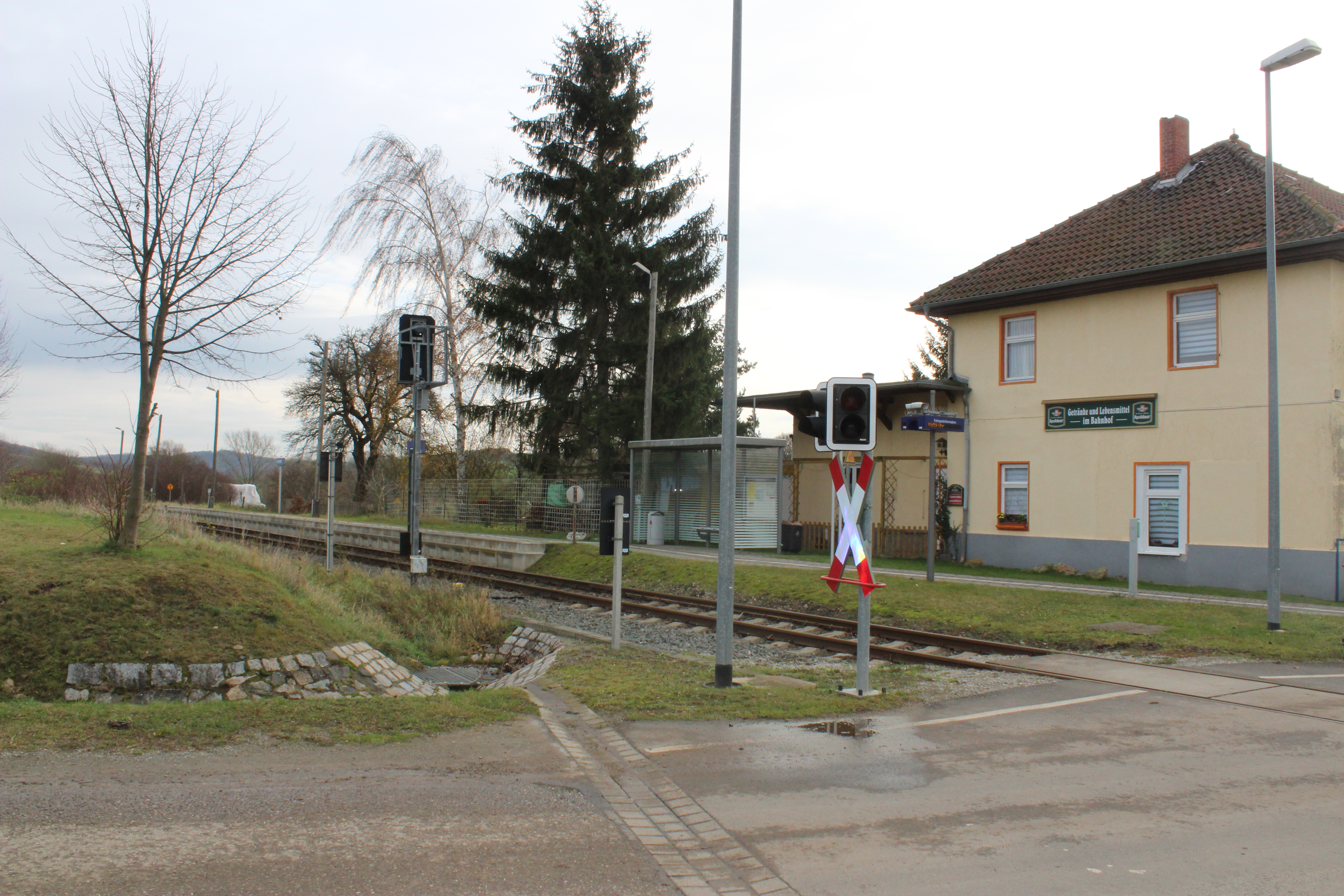 train station Auerstedt